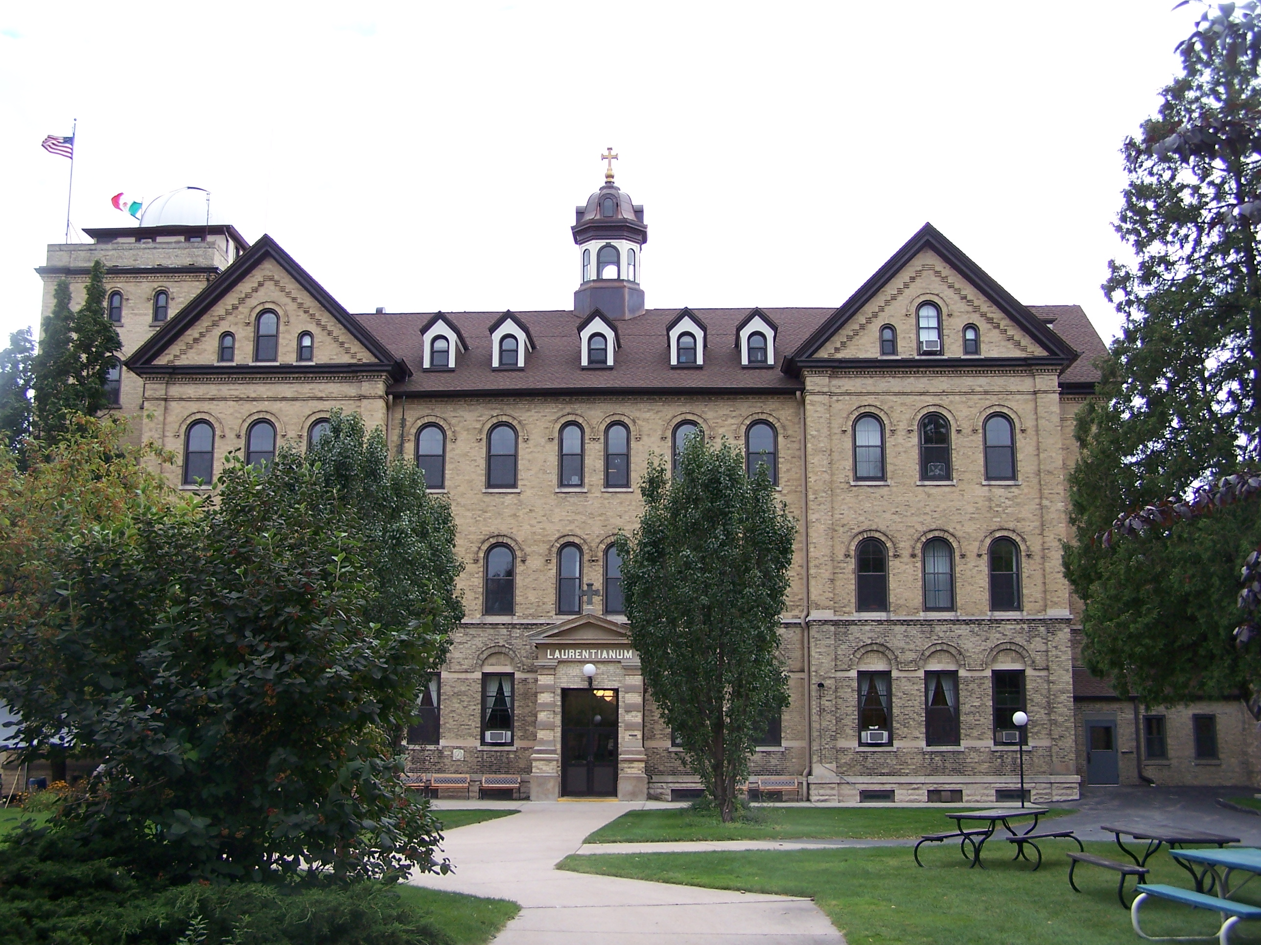 The Laurentianum (Main Building) at St. Lawrence Seminary in Mt. Calvary, Wisconsin. September 2007.